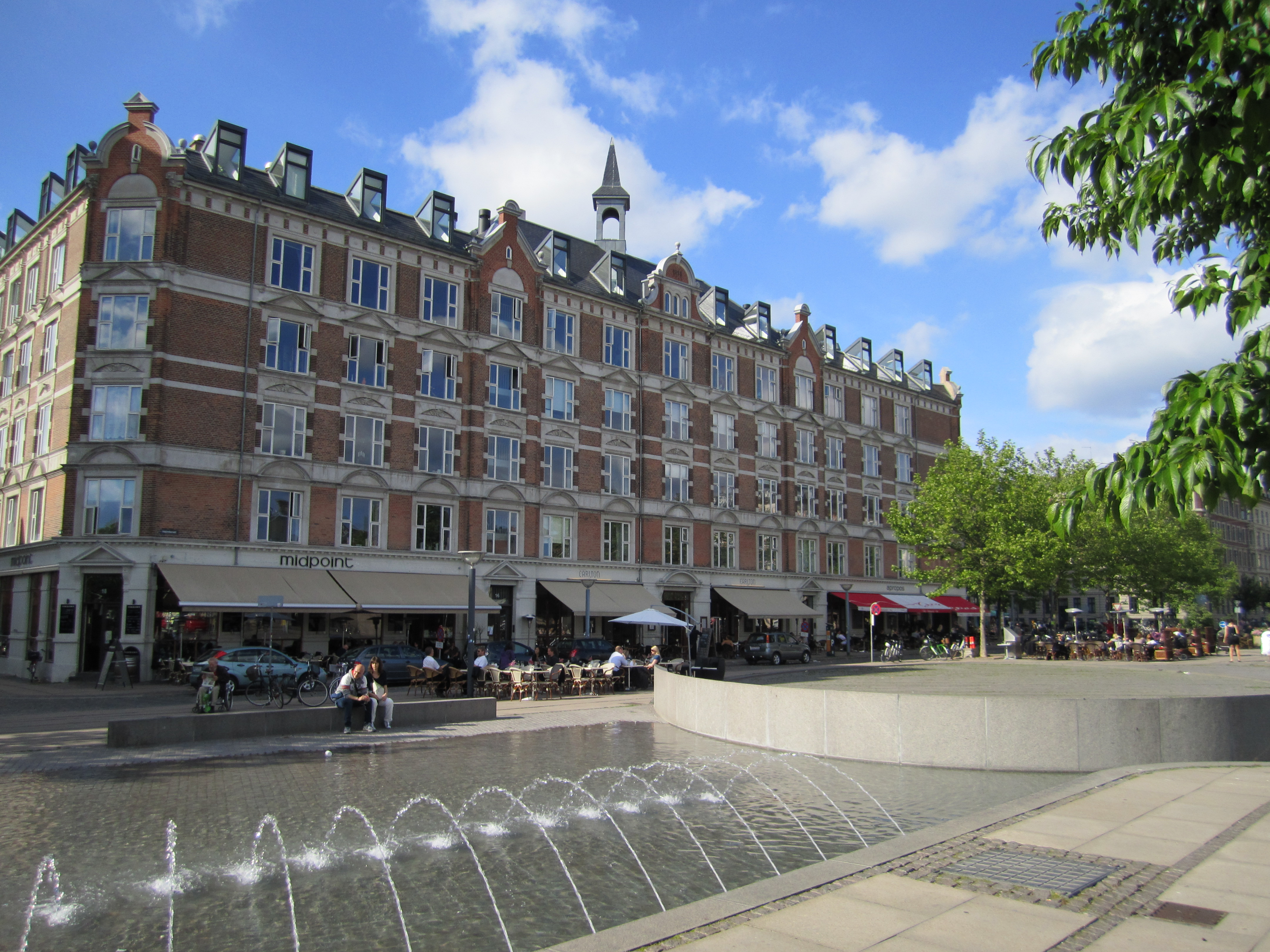 Halmtorvet in the Vesterbro district of Copenhagen, Denmark